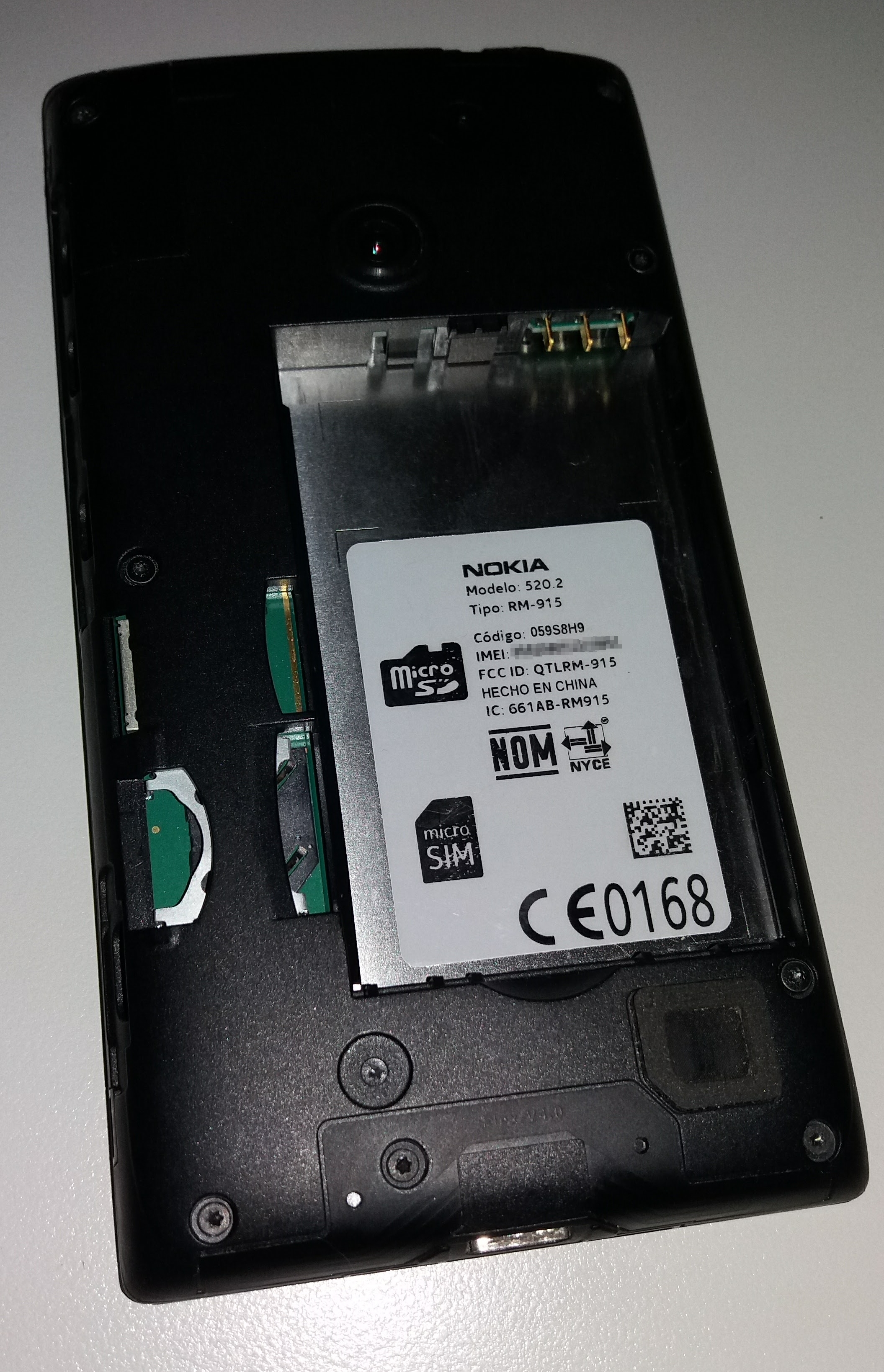 A Nokia Lumia 520 Lumia Denim with Windows Phone 8.1